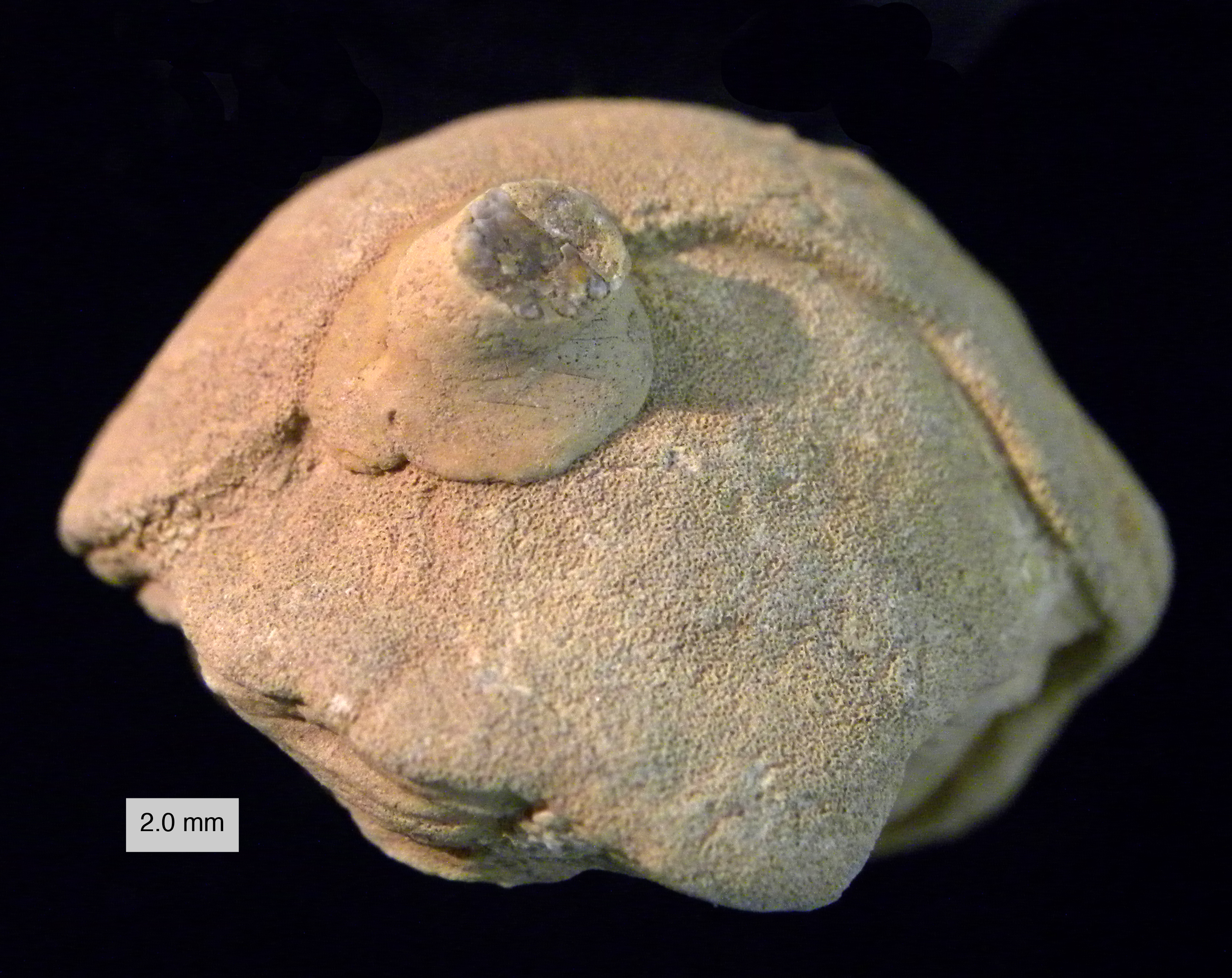 Calcareous sponge with encrusting crinoid from the Matmor Formation (Jurassic, Callovian) of the Makhtesh Gadol, Israel.